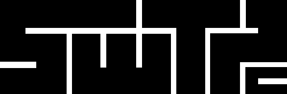 This logo was used by Southwest Technical Products Corporation of San Antonio, Texas from around 1971 to 1985. It was never registered with the United States Patent and Trademark Office and never appeared with a TM symbol.